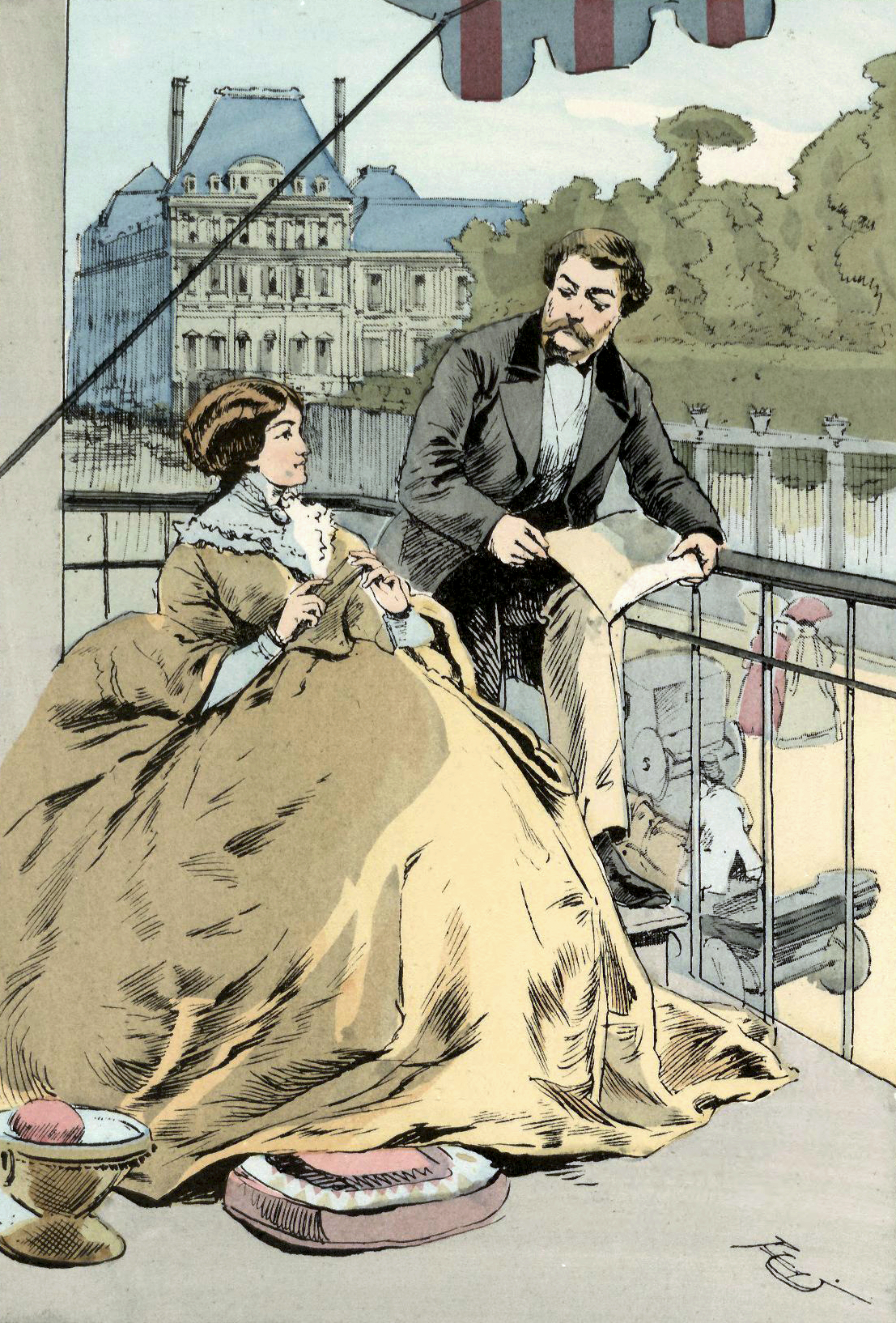 In the background of this plate, one can see the gardens of the Tuileries and the Louvre behind it. The man wears a black coat with a starched collar. His pants are wide-legged and loose-fitting. She is wearing a mustard-colored dress with a lace pelerine. Her dress is very full, with flowing sleeves and a wide crinoline. Abstract sources: Boucher, François. 20,000 Years of Fashion. New York: Harry N. Abrams, Inc, 1967. Ruppert, Jacques. Le Costume Français. Paris: Flammarion, 1996.